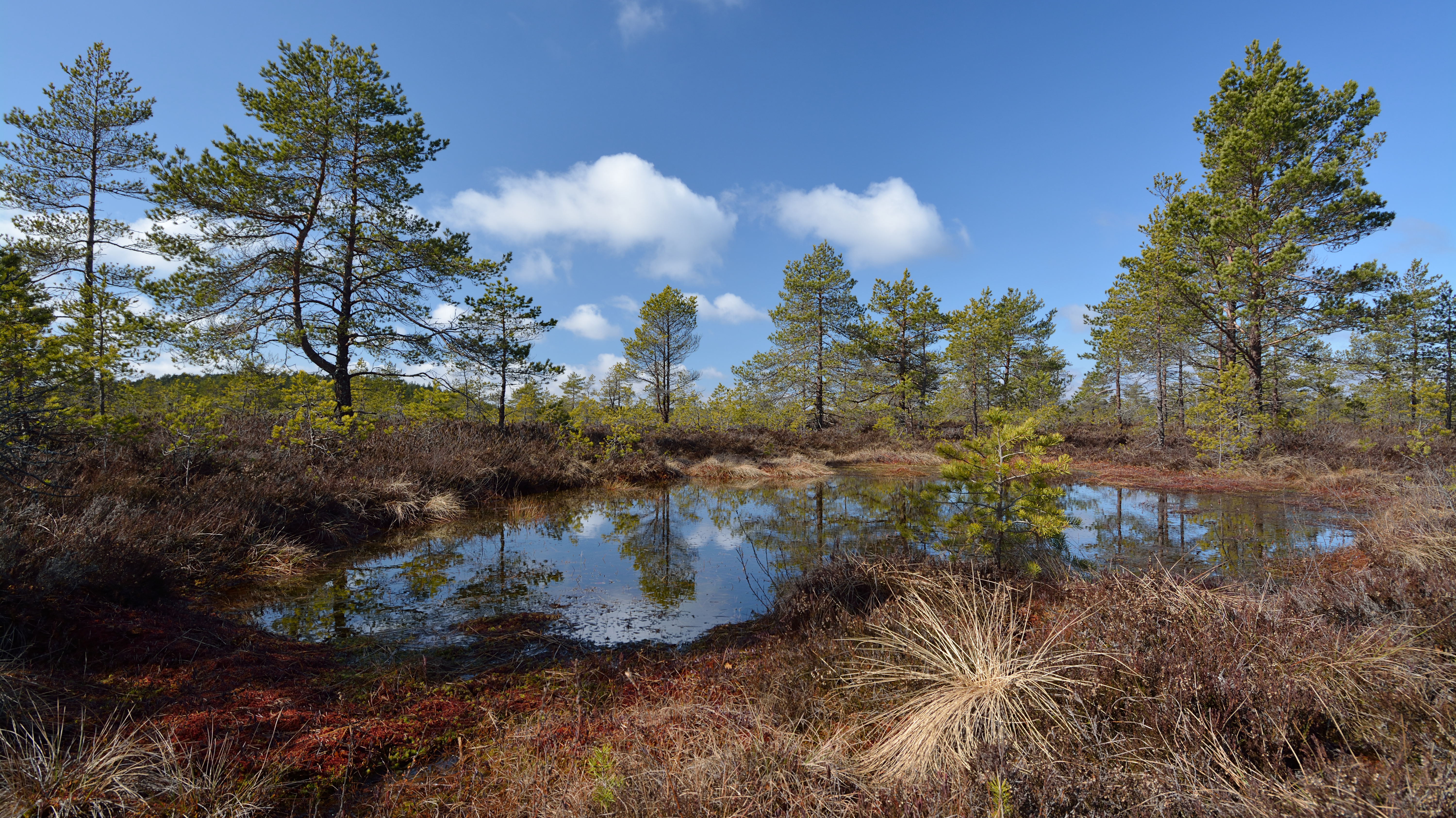 Loosalu bog